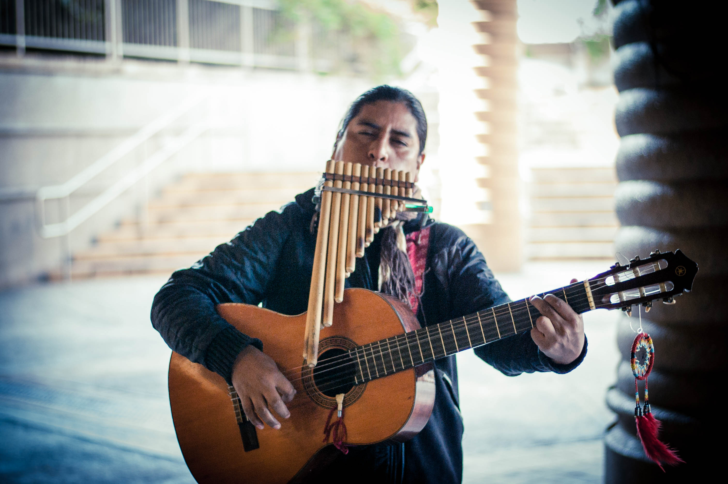 Street performer plays guitar and pan flute in Castro Valley, California on September 26, 2012.